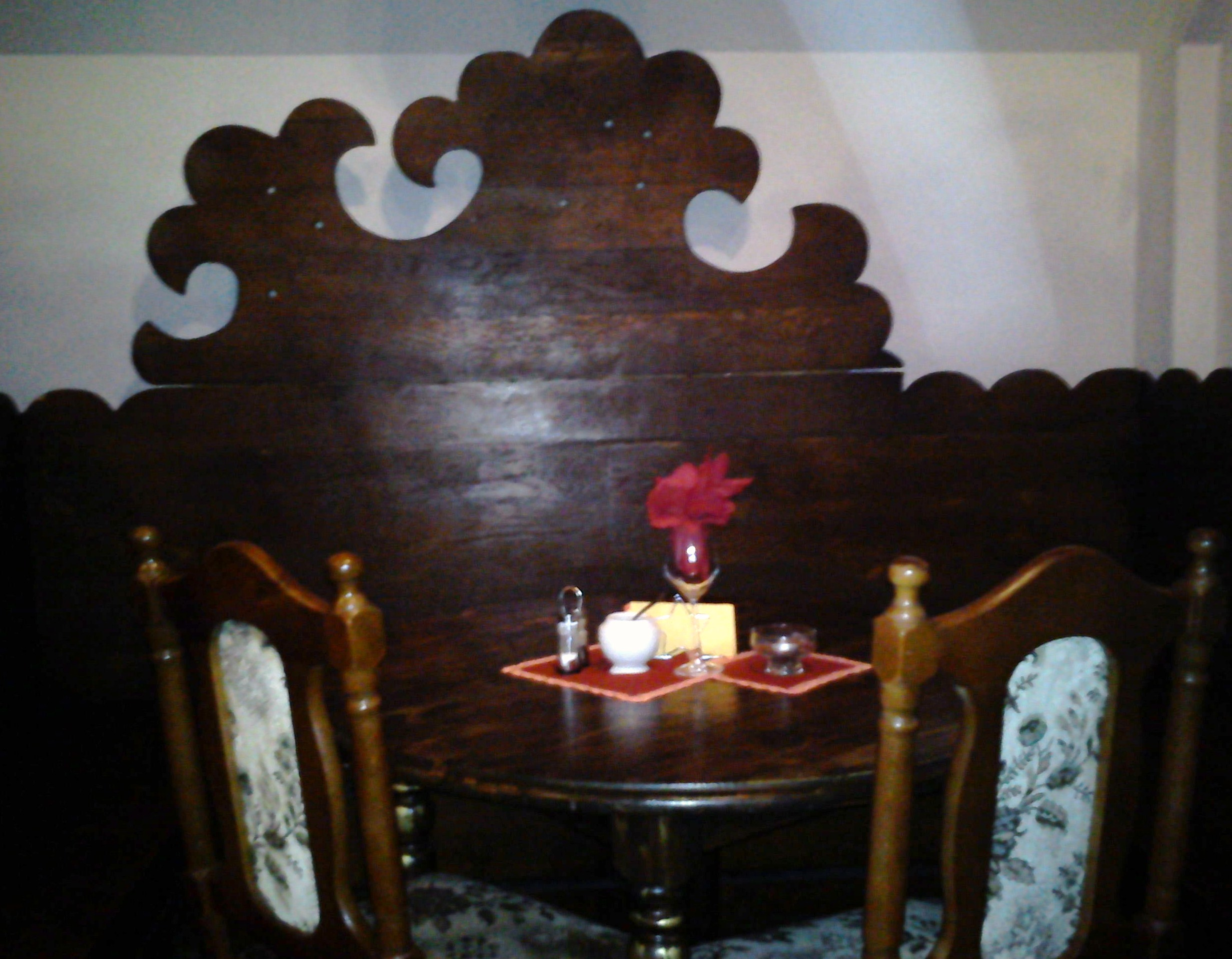 Restaurant and hotel Dobrawa in Tuczno. The interior dining room.